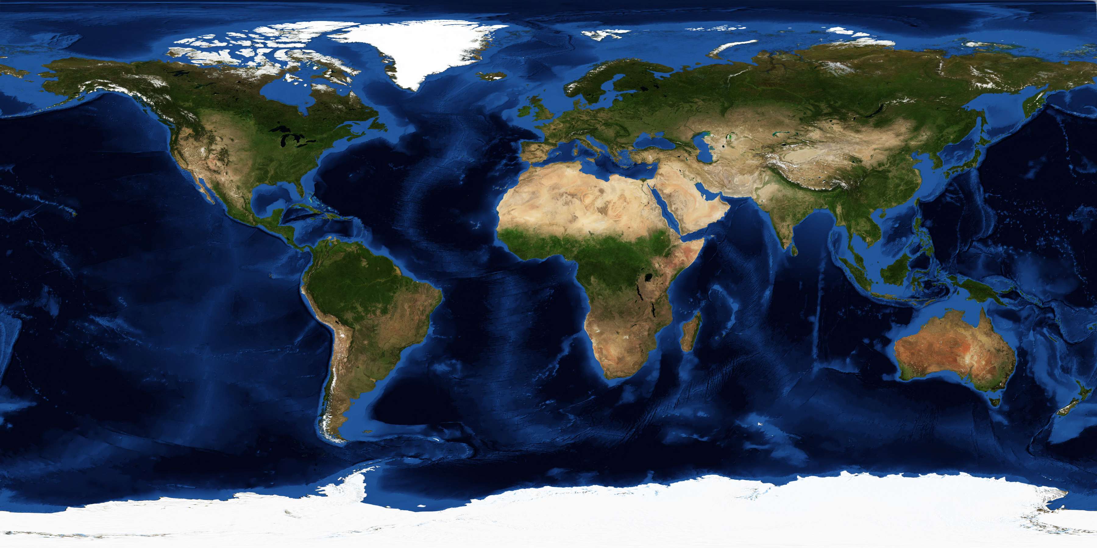 Blue Marble: Next Generation + topography + bathymetry. Equirectangular projection. Produced by Reto Stöckli, NASA Earth Observatory (NASA Goddard Space Flight Center)